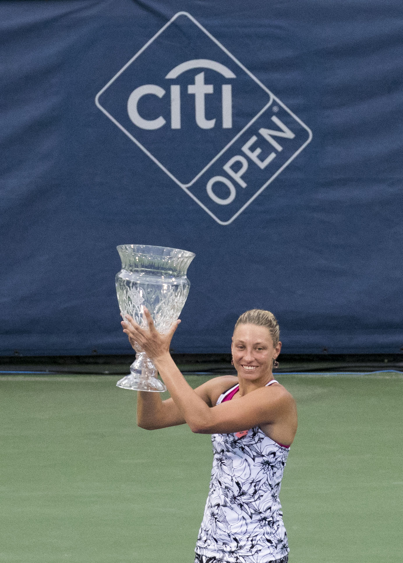 Yanina Wickmayer of Belgium holds the trophy after her 6-4, 6-2 win over Lauren Davis of the United States in the women's singles final of the Citi Open at Rock Creek Park Tennis Center on July 24, 2016 in Washington, DC.